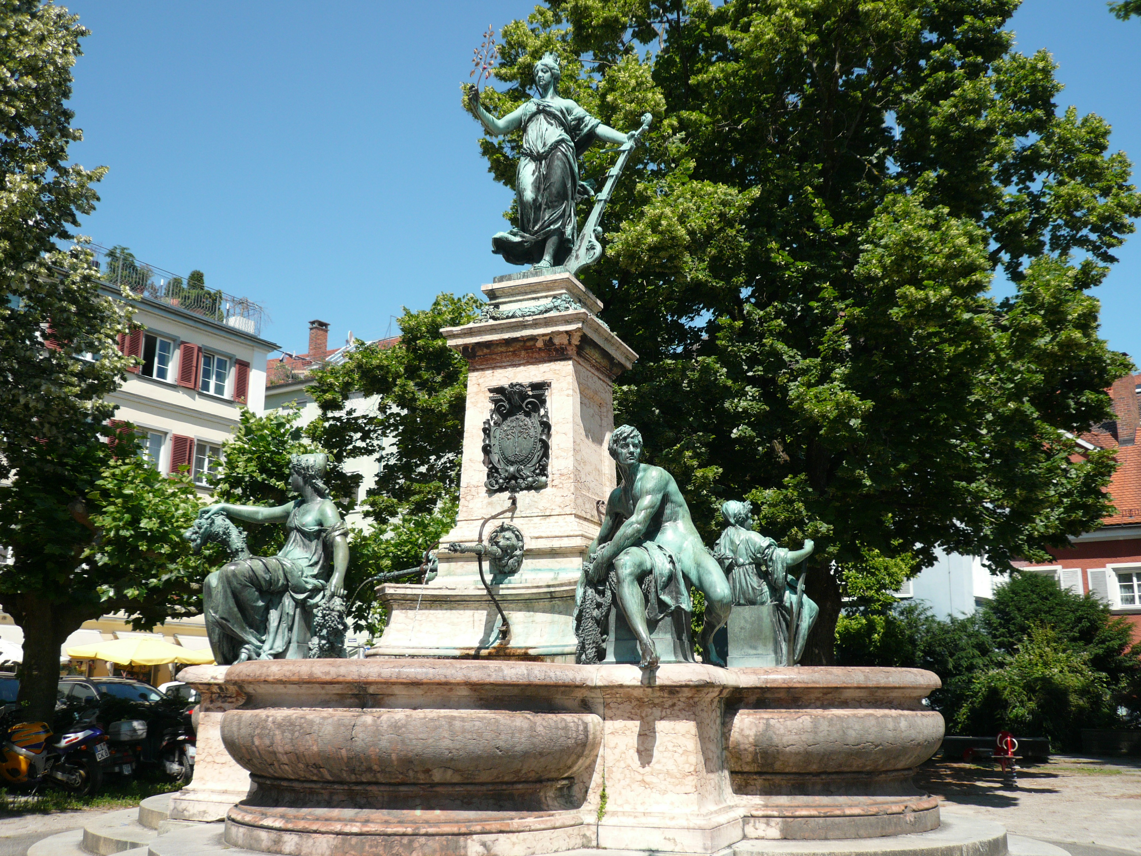 Lindavia fountain at Lindau